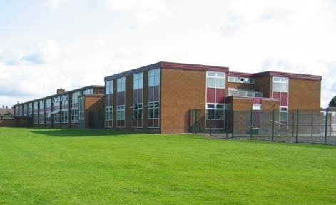 Worden Sports College, Leyland, Lancashire